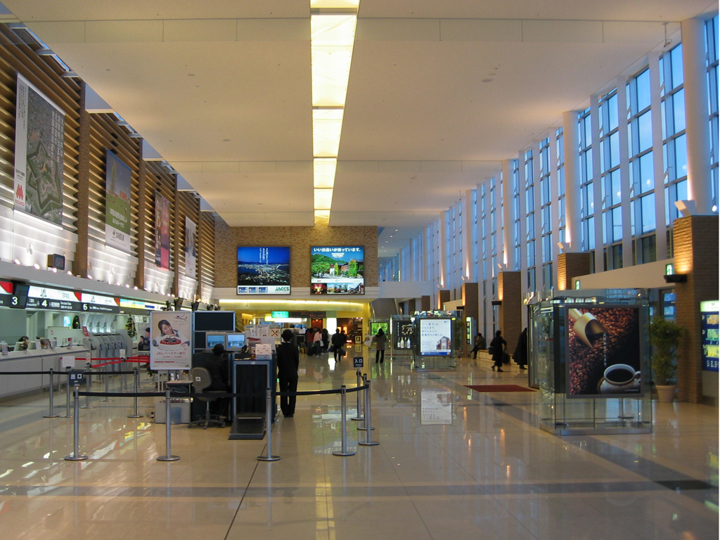 Photograph of airline check-in counters in Hakodate Airport Terminal Building (Domestic), Hakodate, Hokkaido, Japan.